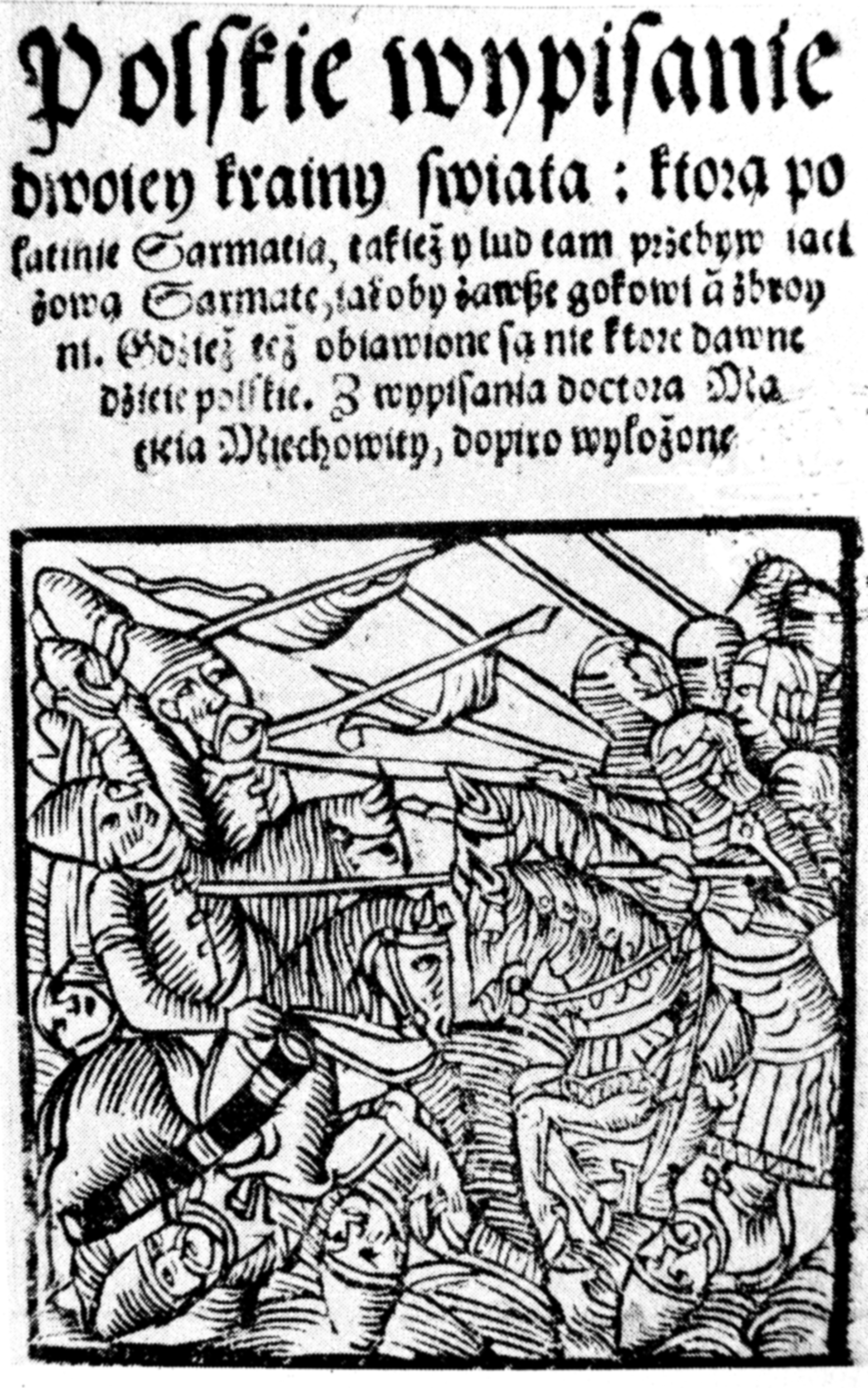 Maciej Miechowita "Polskie wypisanie dwojej krainy świata", 1535.